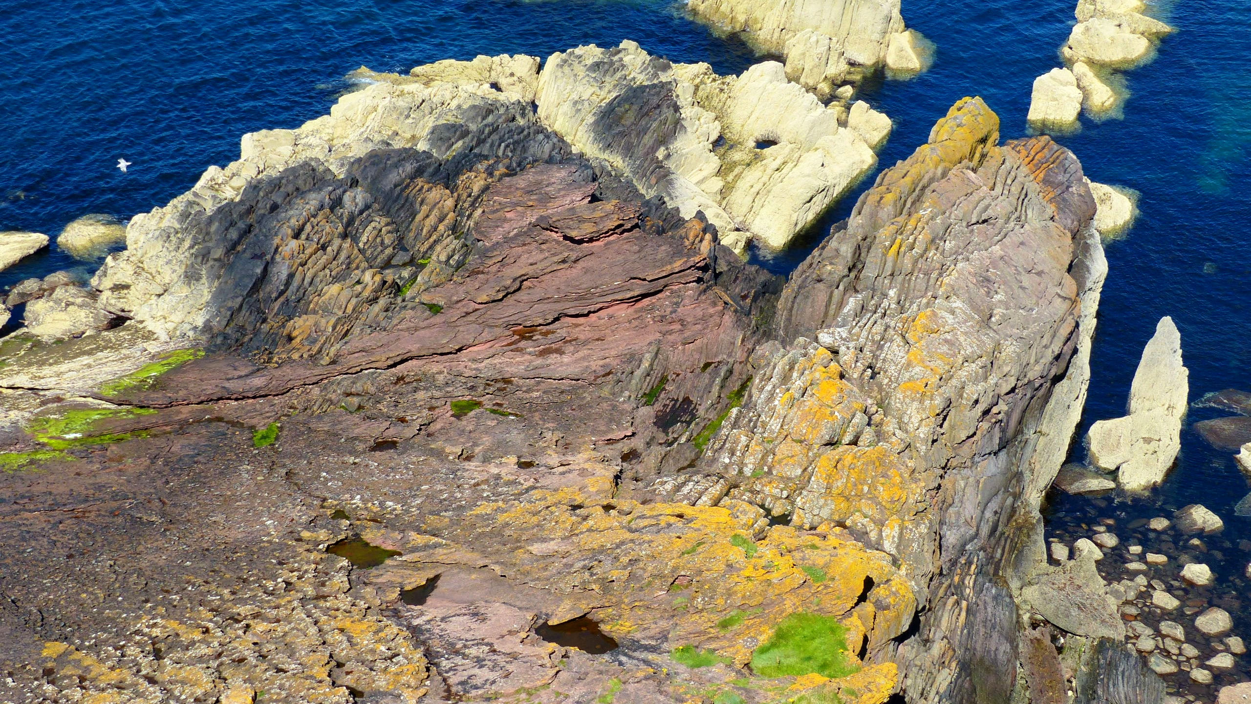 Hutton's Unconformity#Siccar Point - gently inclined layers of Devonian Old Red Sandstone uncover near vertical layers of Silurian greywacke, 65 million years younger.